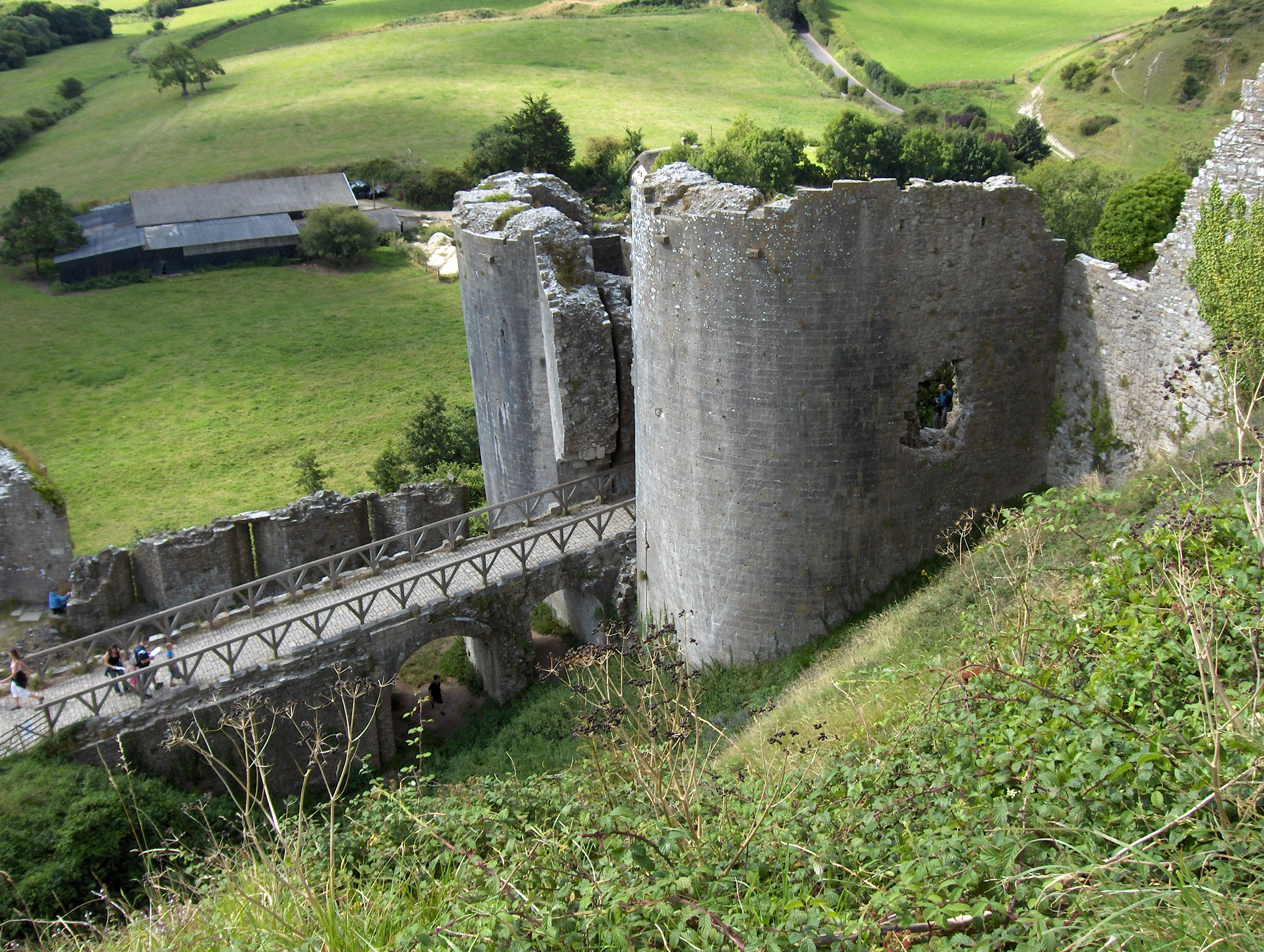 Photograph of the ruins of the south-west gatehuose and bridge at Corfe Castle, Dorset